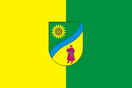 Flag of Vasylkiv raion of Dnipropetrovsk oblast